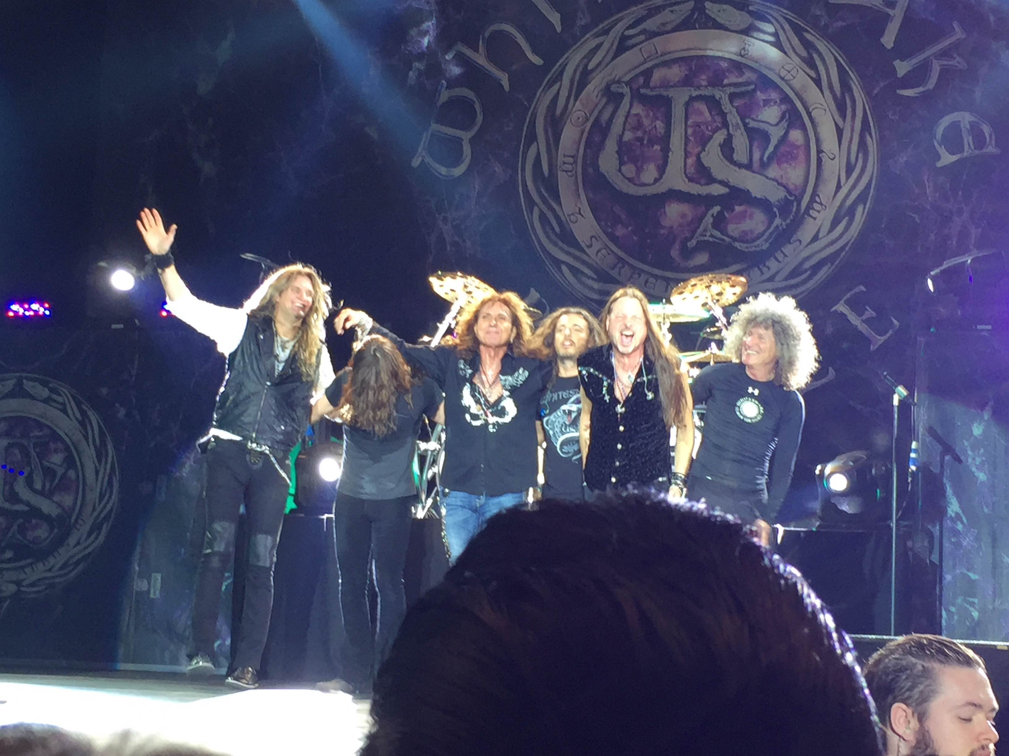 This was a photo taken the 13th november 2015 in Stockholm, Sweden